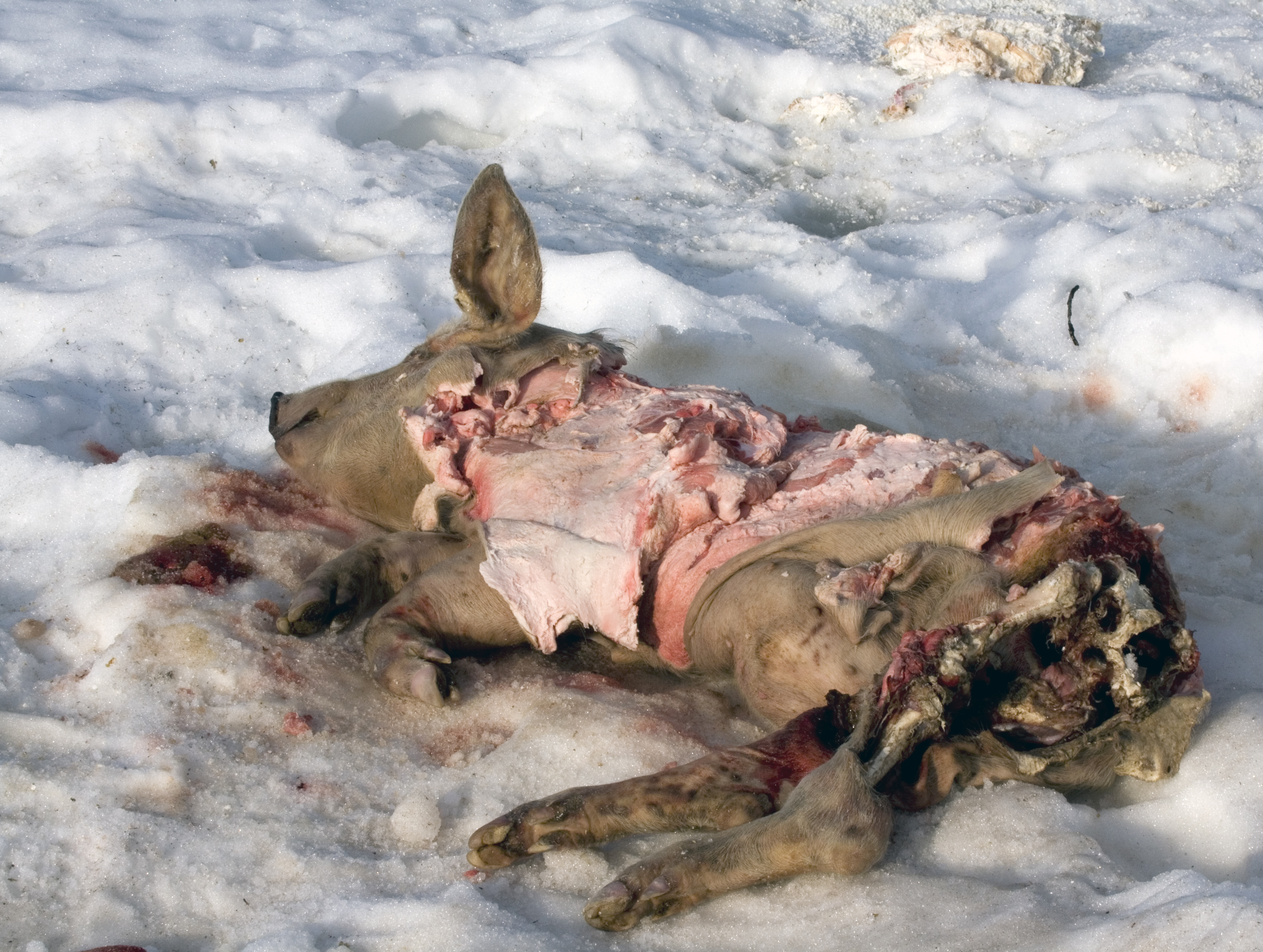 Pig ripped by bears in Kuhmo, Finland.